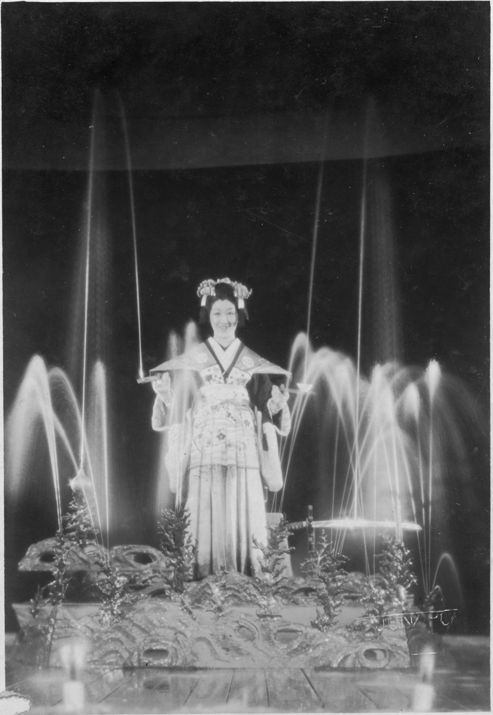 Takako Irie (入江たか子) in Taki no shiraito (滝の白糸) directed by Kenji Mizoguchi - 1933